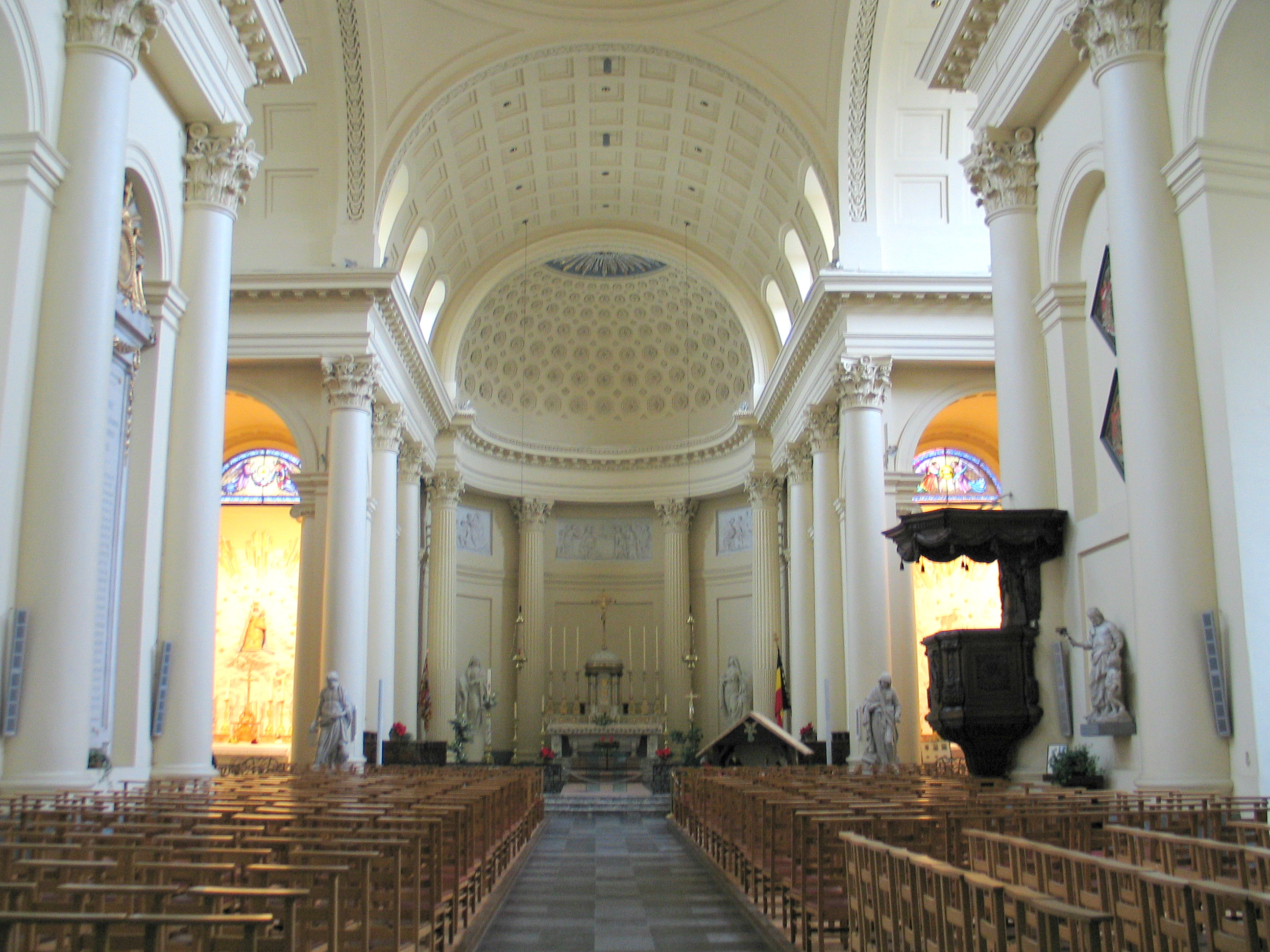 Interior of the church of Sint-Jacob-op-Koudenberg in Brussels